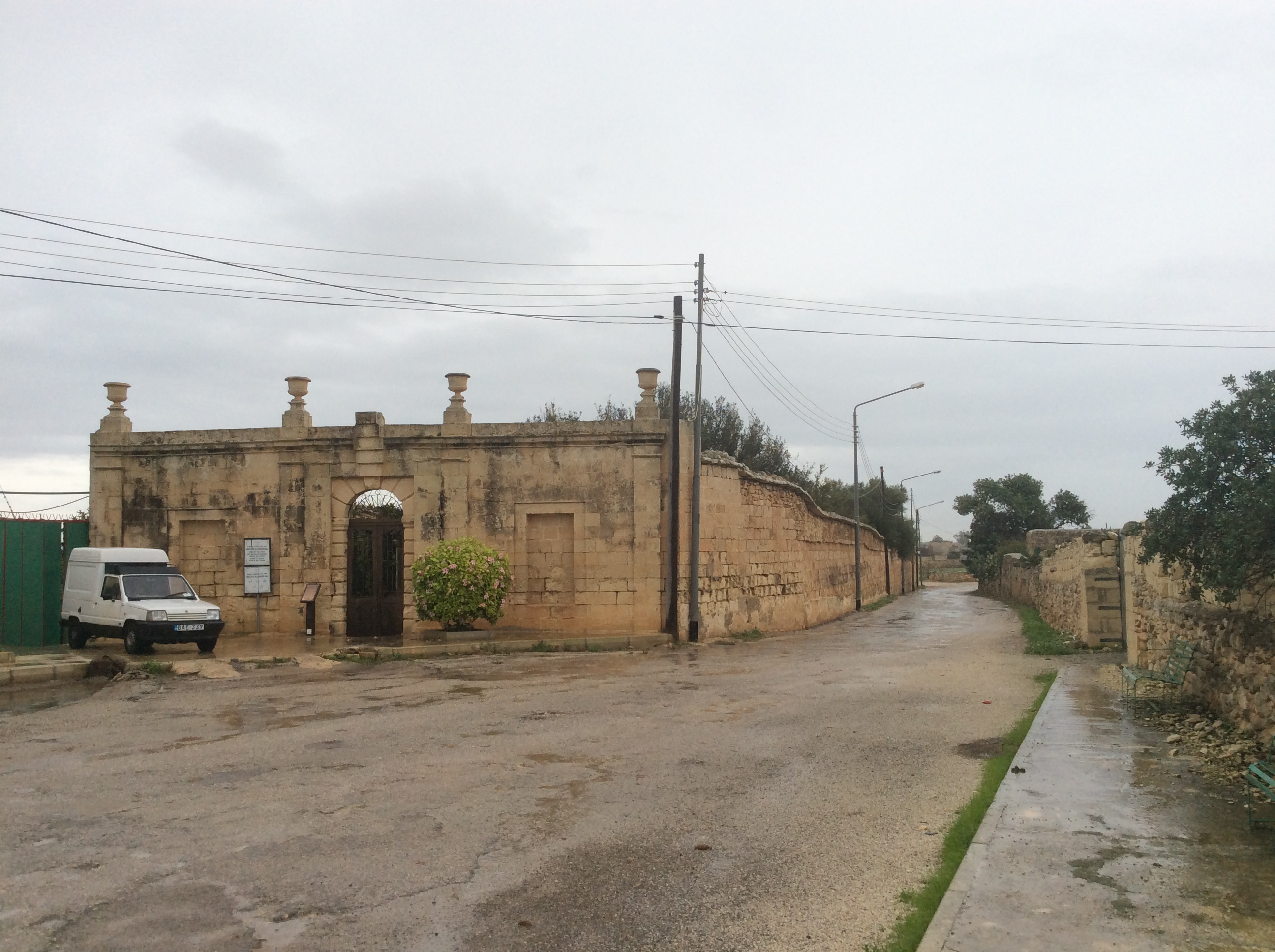 Gnien Sir Alexander Ball (Sir Alexander Ball's Garden), also known as Gnien tal-Kmand (Commander's Garden)